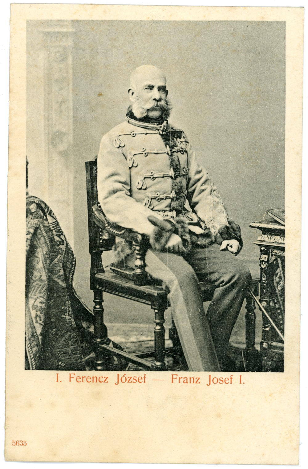 This postcard is from publisher Brück & Sohn in Meißen ( This postcard has a unique number 05635 and is available in a higher resolution at the publisher. This images was uploaded in a cooperation project between Wikipedians and the publisher.